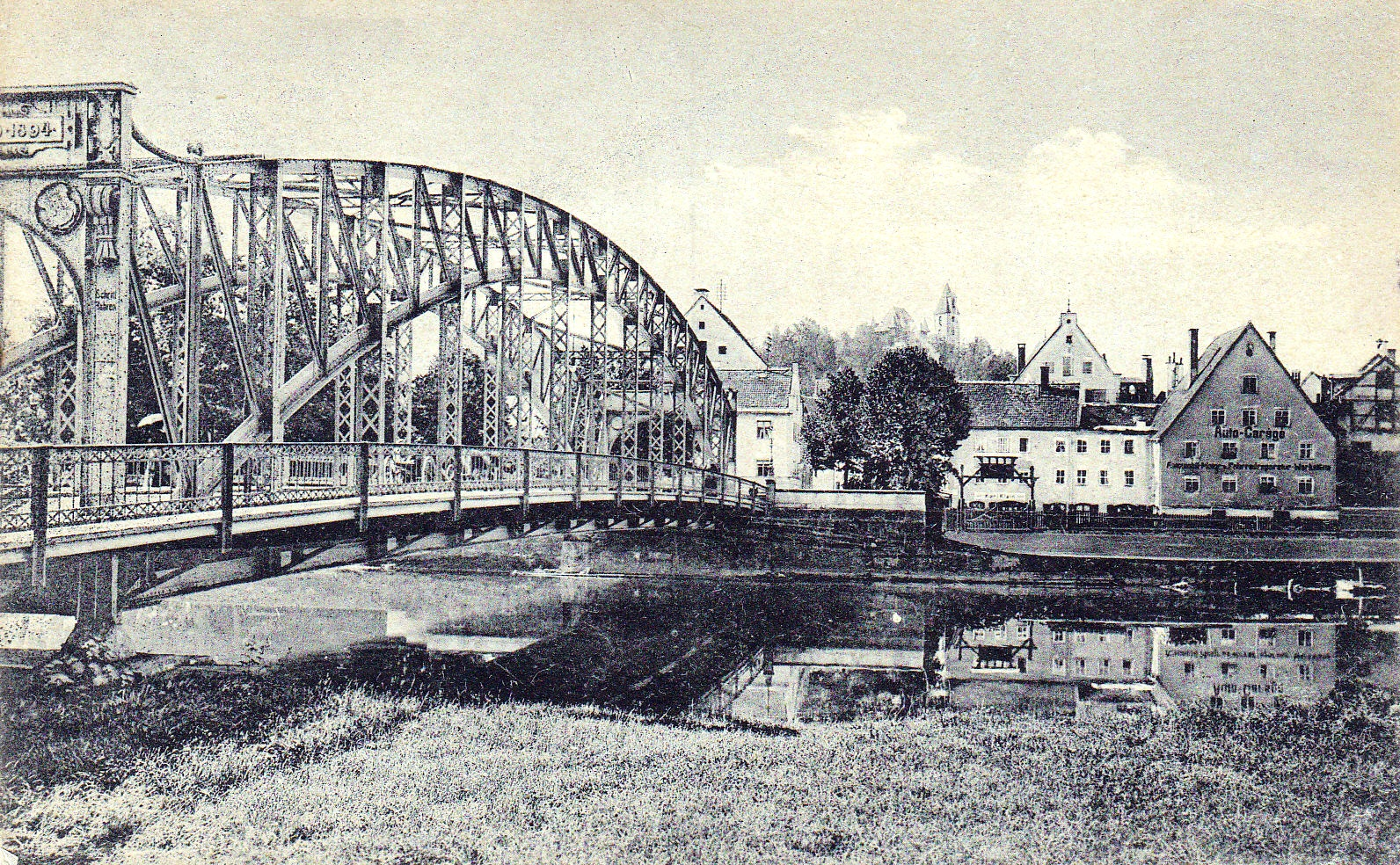 St. Mangbrücke in Kempten